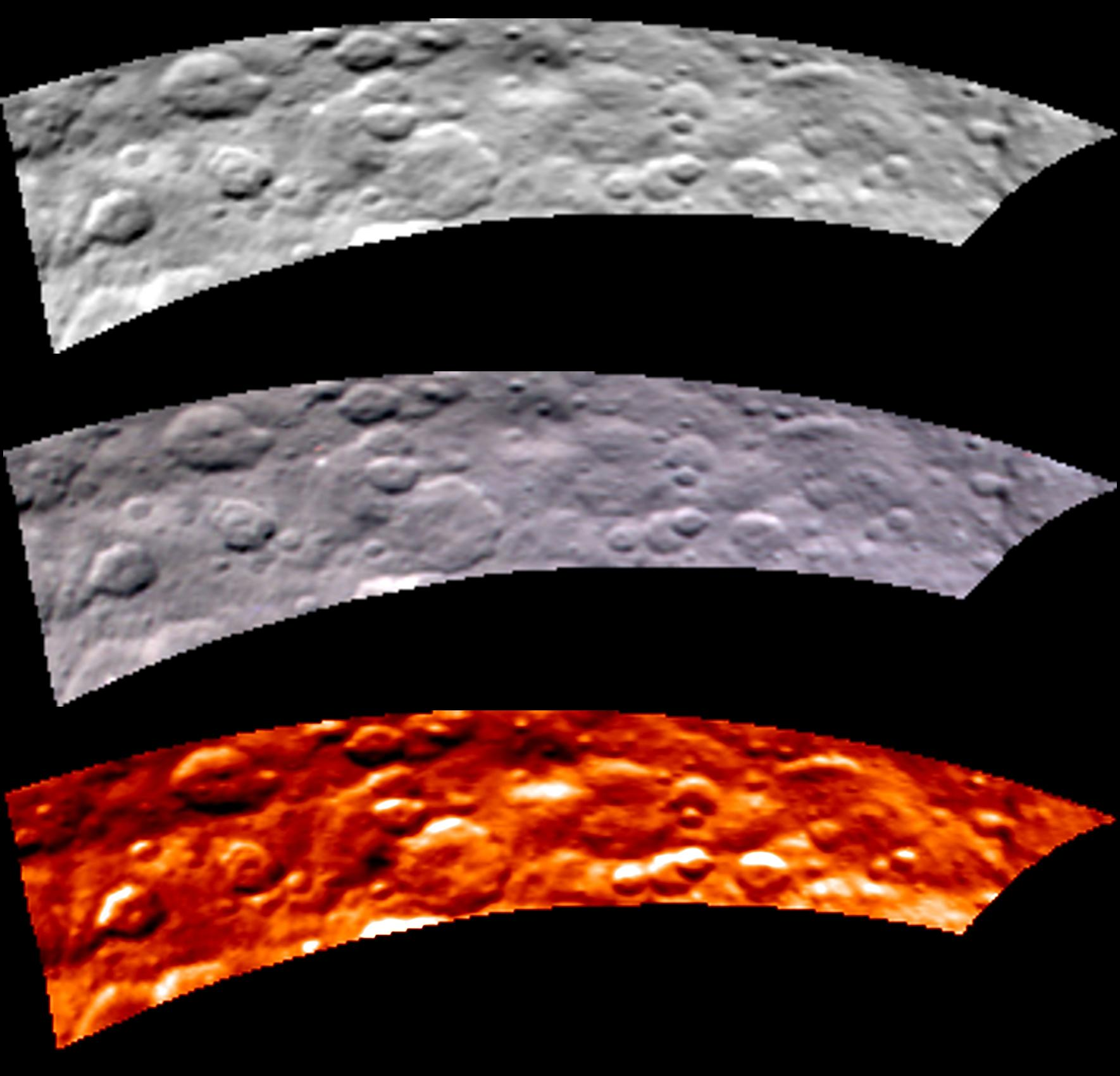 PIA19571: VIR Image of Ceres, May 2015 Images from Dawn's visible and infrared mapping spectrometer (VIR) show a portion of Ceres' cratered northern hemisphere, taken on May 16, 2015. From top to bottom, the views include a black-and-white image, a true-color view and a temperature image. The true-color view contains reddish dots that are image artifacts, which are not part of Ceres' surface. These images were taken at a distance of 4,500 miles (7,300 kilometers) from Ceres. They have a resolution of 1.1 miles (1.8 kilometers) per pixel. The temperature image is derived from data in the infrared light range. The lightest areas are the coolest and the darkest are the hottest. Dawn's mission is managed by JPL for NASA's Science Mission Directorate in Washington. Dawn is a project of the directorate's Discovery Program, managed by NASA's Marshall Space Flight Center in Huntsville, Alabama. The University of California, Los Angeles, is responsible for overall Dawn mission science. Orbital ATK, Inc., in Dulles, Virginia, designed and built the spacecraft. The German Aerospace Center, the Max Planck Institute for Solar System Research, the Italian Space Agency and the Italian National Astrophysical Institute are international partners on the mission team. For a complete list of acknowledgments, For more information about the Dawn mission, visit